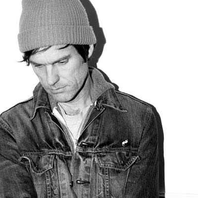 Portrait. Damon Way. San Francisco, CA